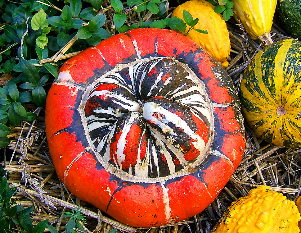 Gourds